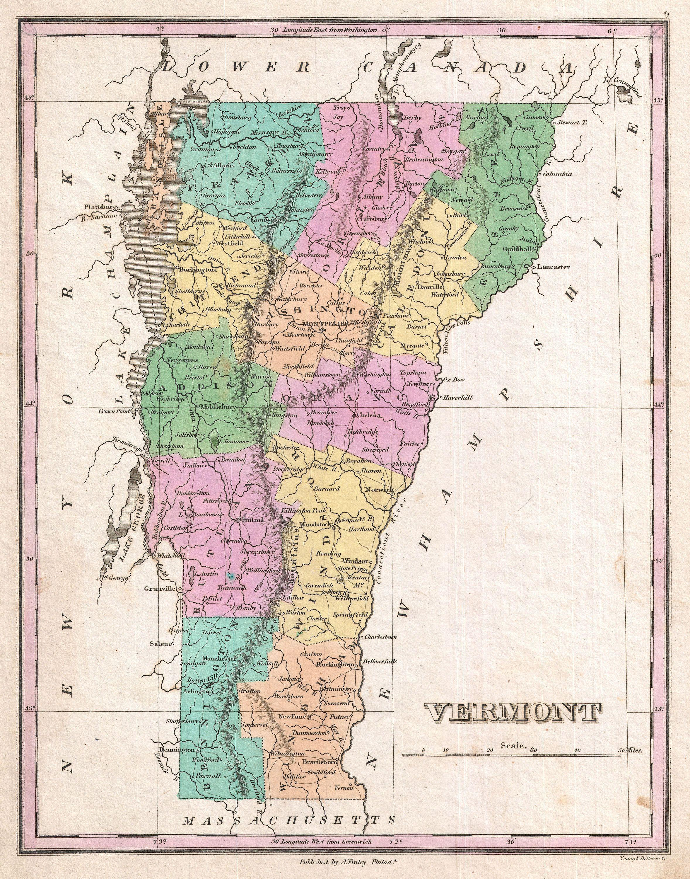 A beautiful example of Finley's important 1827 map of Vermont. Depicts the state with moderate detail in Finley's classic minimalist style. Shows river ways, roads, canals, and some topographical features. Offers color coding at the county level. Title and scale in lower right quadrant. It is very uncommon to find an early 19th century exclusively depicting Vermont, as most maps of the period bundled it with New Hampshire. Identifies Killington Peak and Camel's Hump, now popular ski resorts. Engraved by Young and Delleker for the 1827 edition of Anthony Finley's General Atlas .